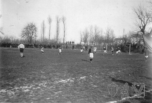 This football game played March 5, 1911 confrontation sees Bologna-Vicenza. It was won by Vicenza 4-0.